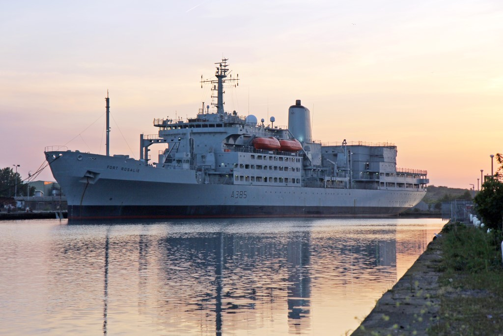 RFA Fort Rosalie (A385), West Float, Birkenhead